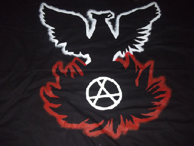 Fenikso Nigra Flag